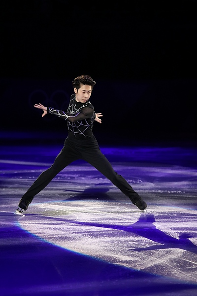 Gala exhibition at the 2018 Winter Olympics